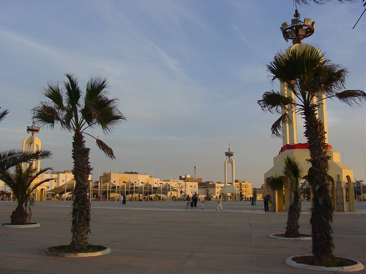 Green March Plaza, El Aauin, the capital of Western Sahara